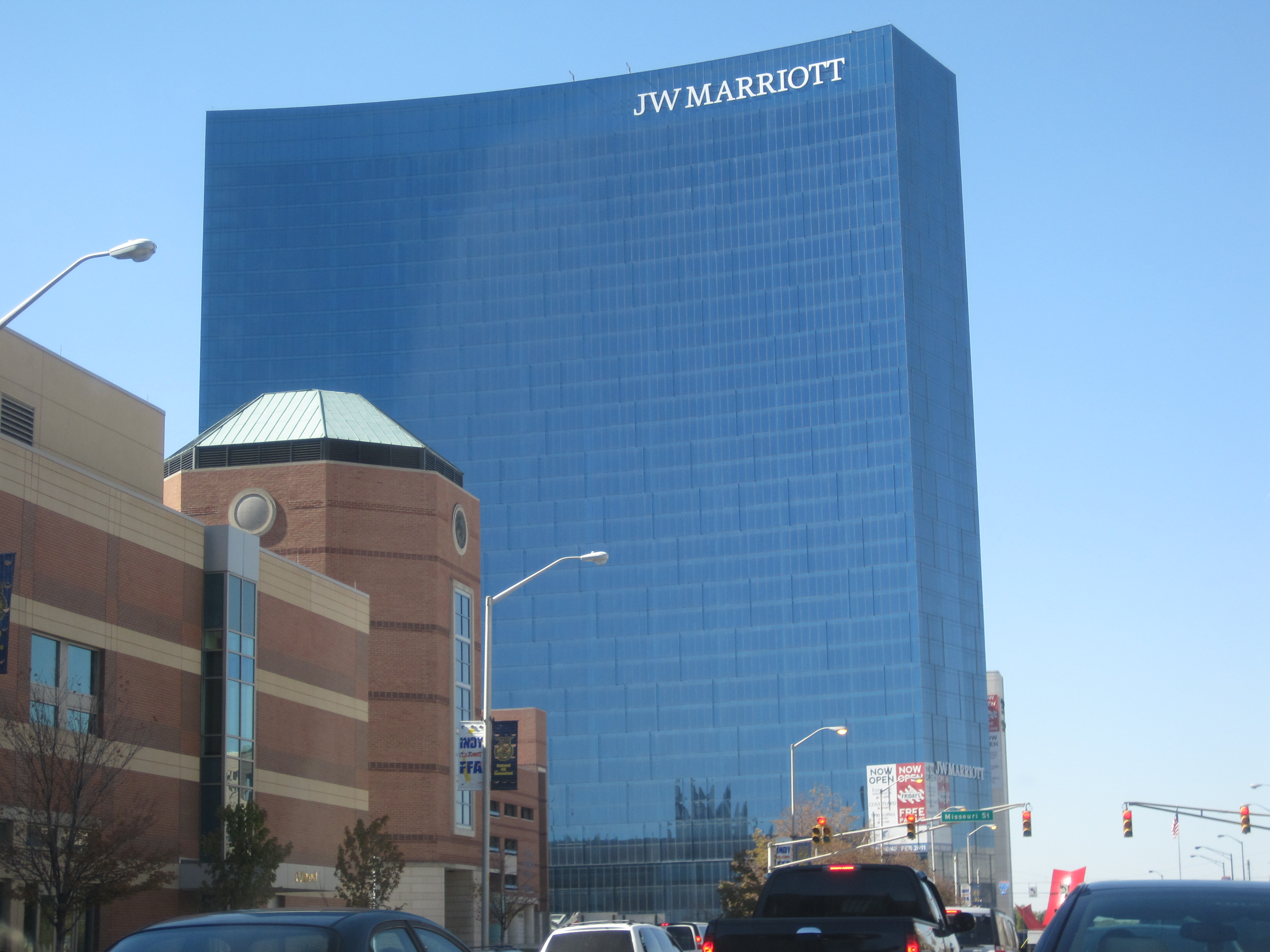 The partially completed JW Marriott Indianapolis hotel in downtown Indianapolis, Indiana on Thursday, October 7, 2010.